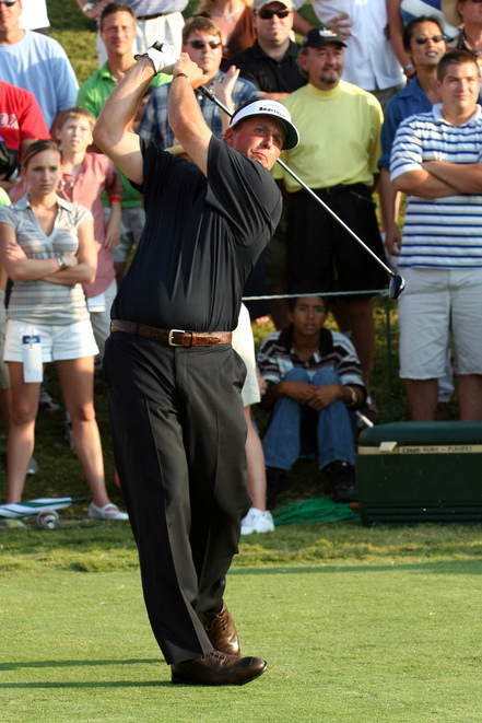 Leader Phil Mickelson teeing off on the 18th hole at TPC at Sawgrass during the final round of the 2007 Players Championship. Mickelson bogeyed the hole but still won the title by two shots.